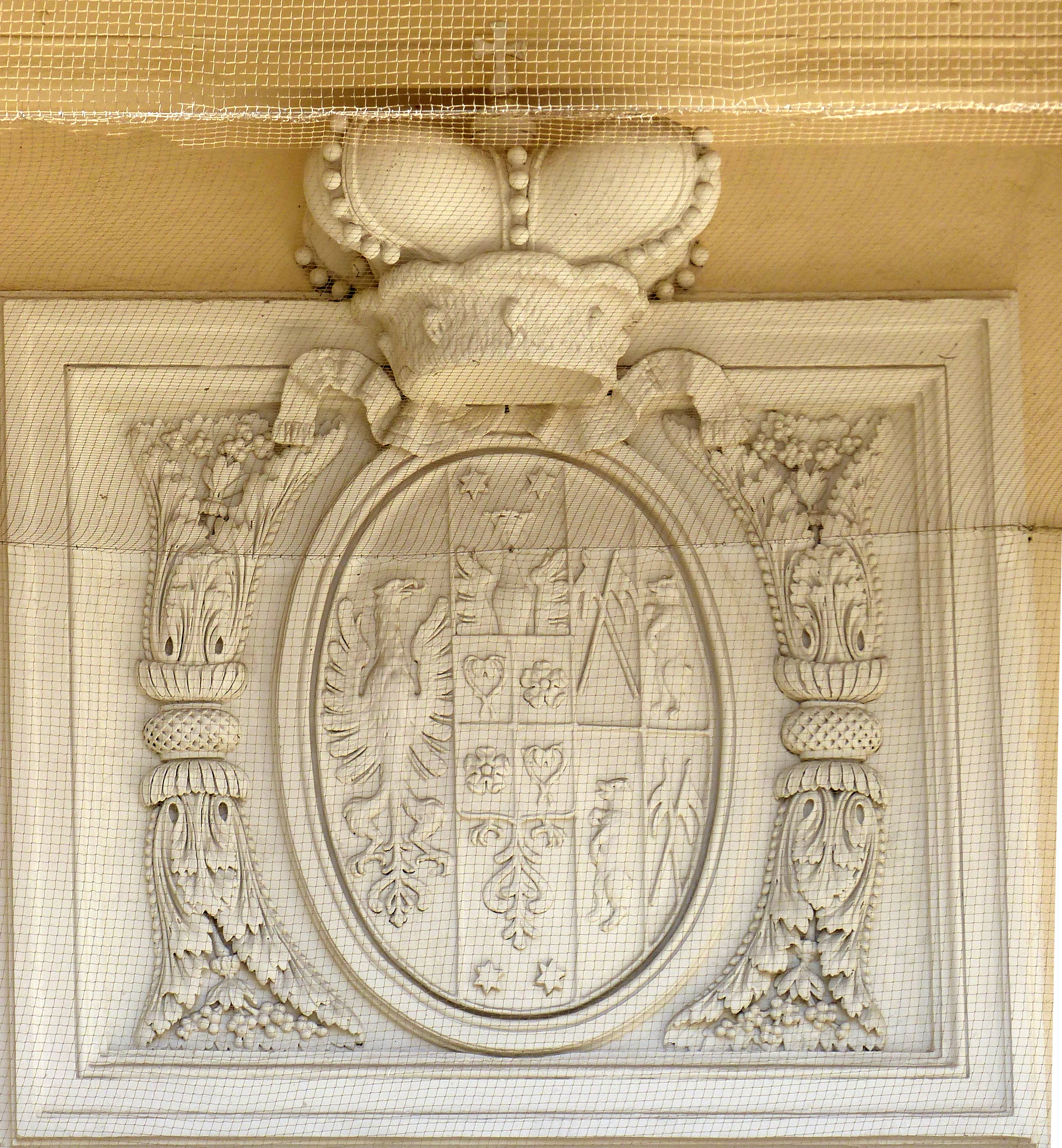 Slavkov ( Czech Republic ). Church of Resurrection of Christ ( 1789 ): Coats of arms of Vaklav Antonin of Kounic